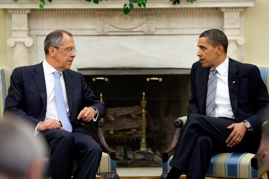 President Barack Obama meets with Russian Foreign Minister Sergey Lavrov in the Oval Office of the White House.